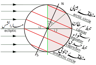 The orientation of the Earth at the December solstice showing the relation of the particular circles of latitude i.e. the tropics of Cancer and Capricorn and the Arctic and Antarctic circles.